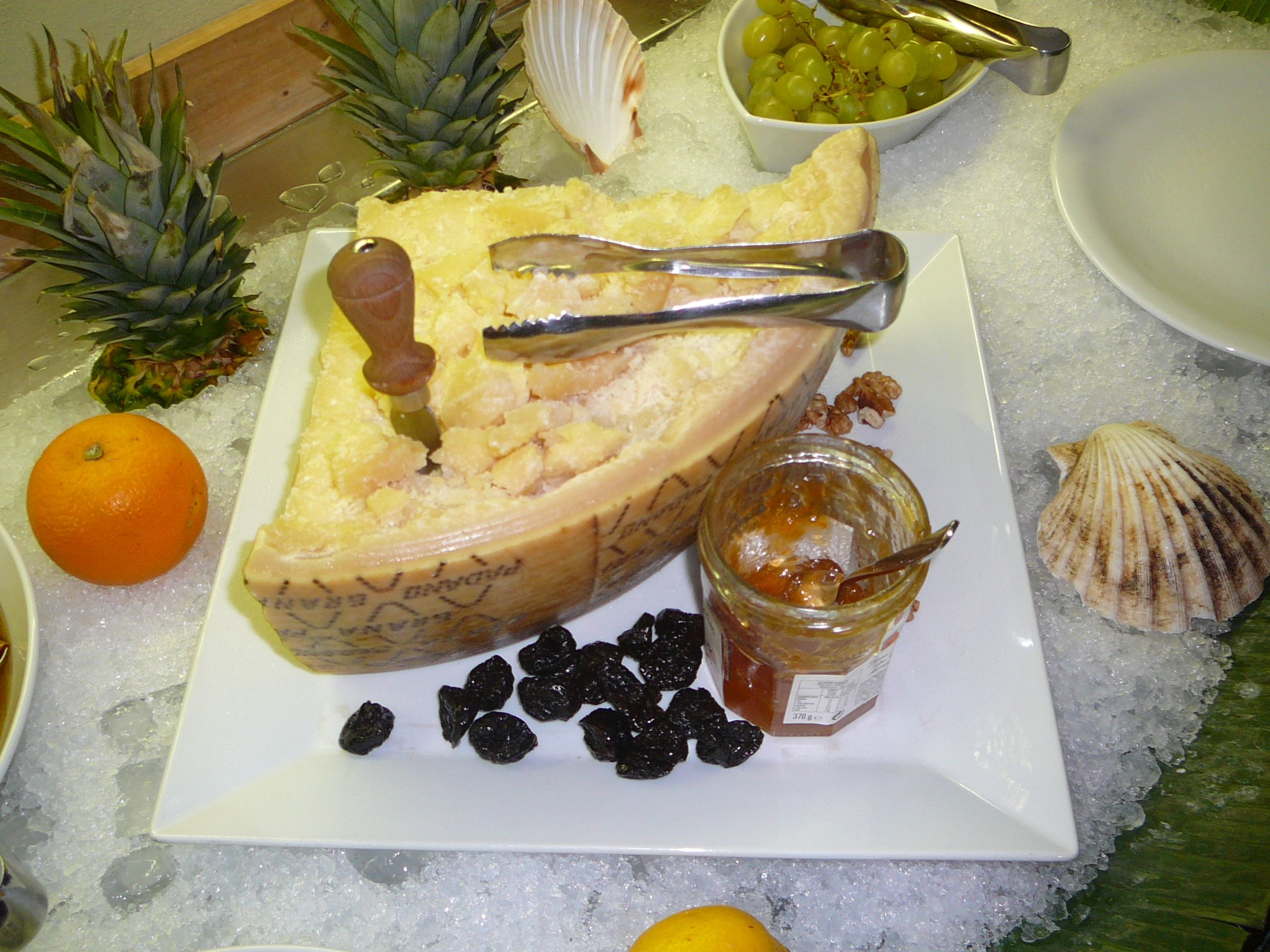 Grana padano